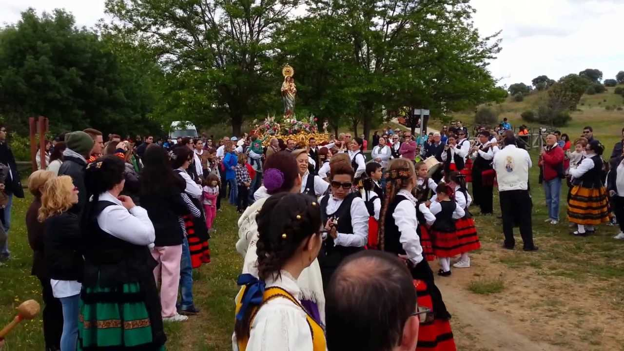 Romería Virgen del Soto Villanueva del Pardillo